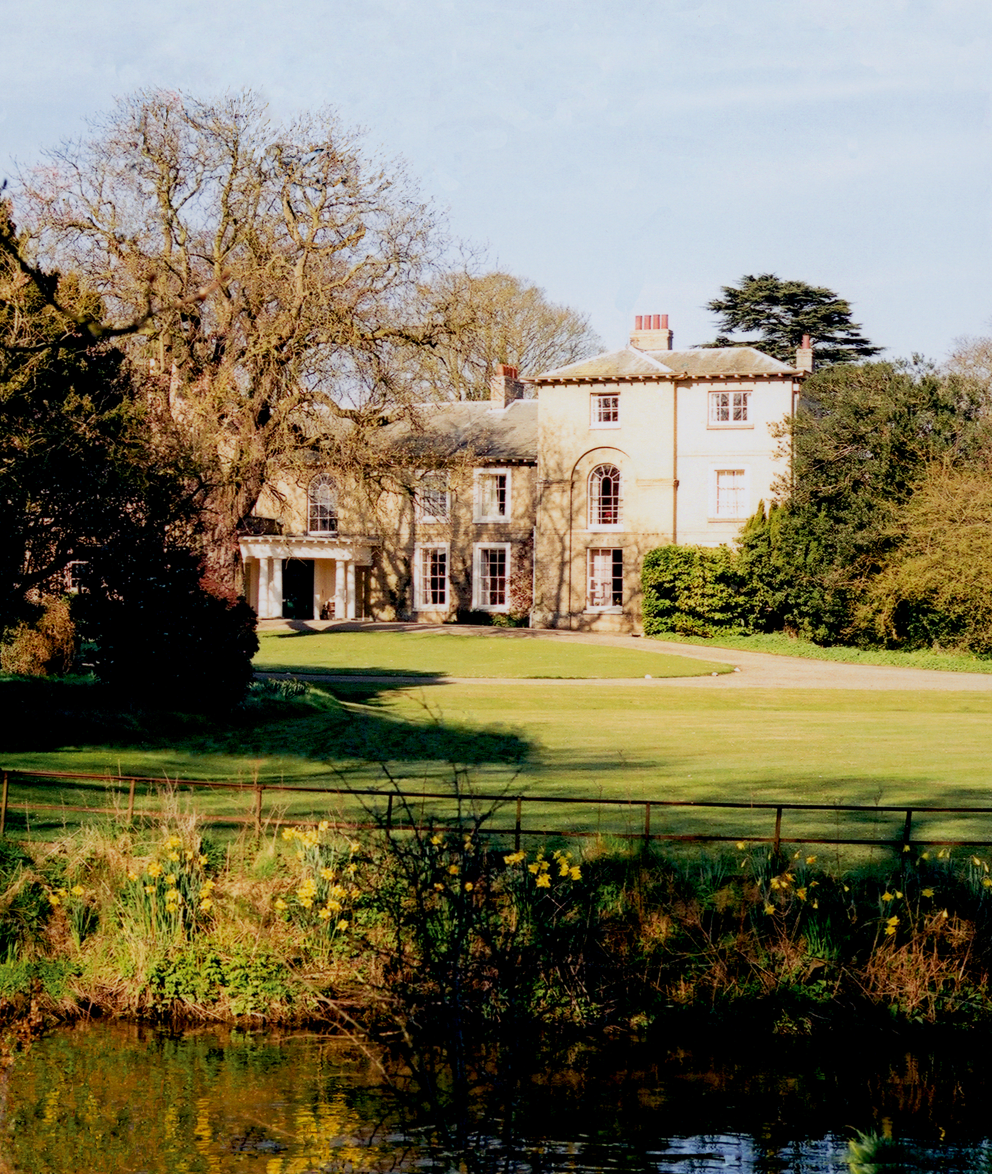 This country house beside the River Glaven in north Norfolk, England, was the home of the diarist Mary Hardy from 1781 to 1809